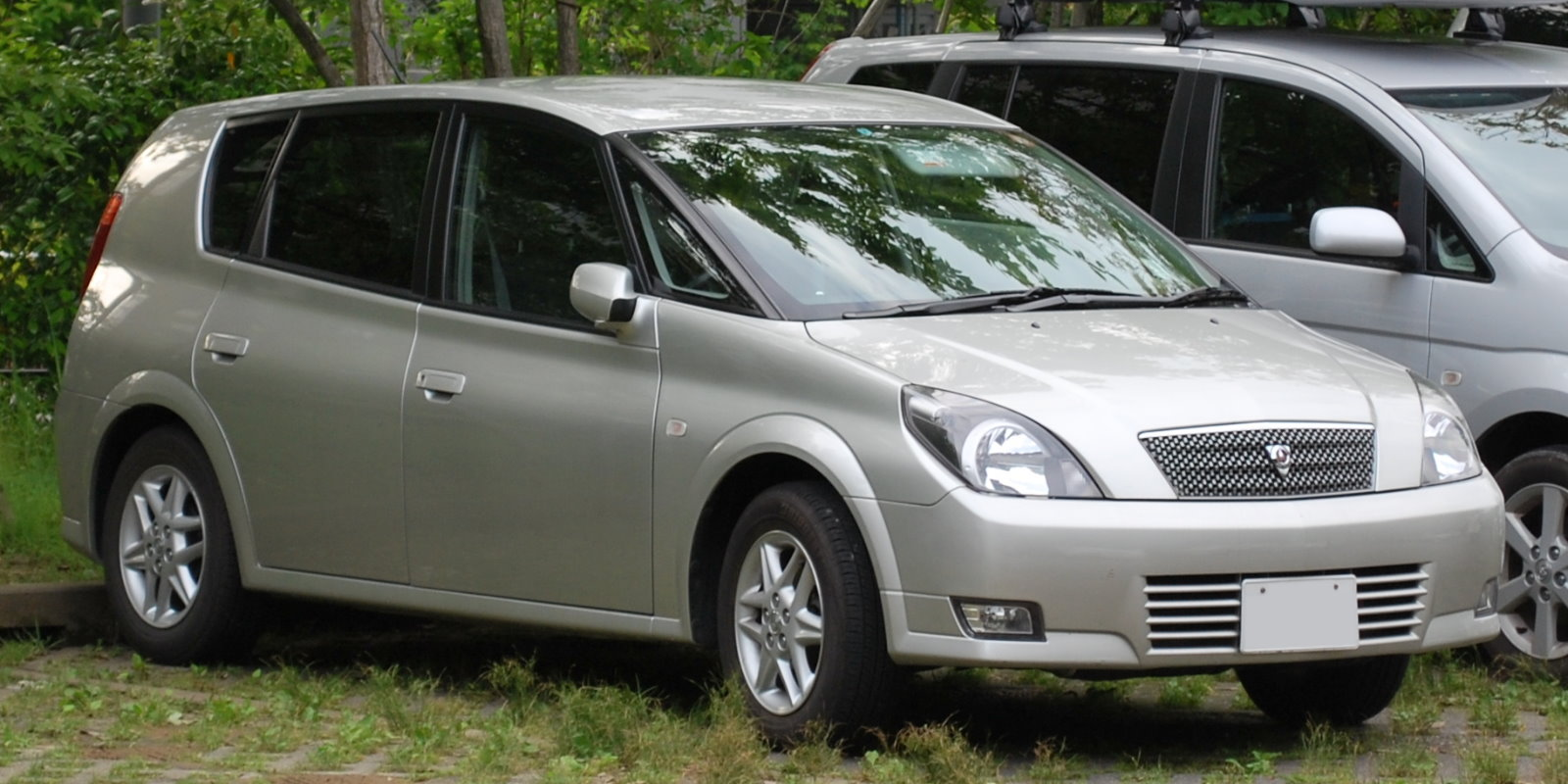 Toyota Opa (2000/5 - 2002/6)